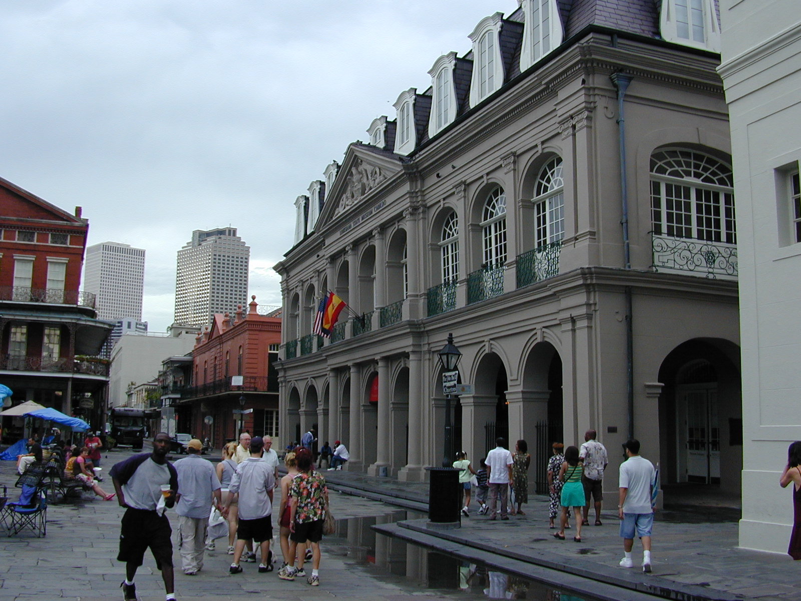 The Cabildo, New Orleans Photo by Jan Kronsell, 2004